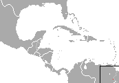 Reig's Opossum (Monodelphis reigi) range IUCN: Monodelphis reigi Lew & Pérez-Hernández, 2004 (old web site) (Vulnerable)